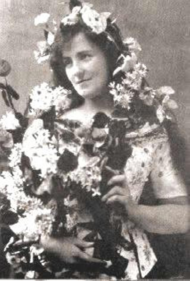 Photo of Louie Pounds as Molly disguised as the Fairy Cleena in The Emerald Isle 1901